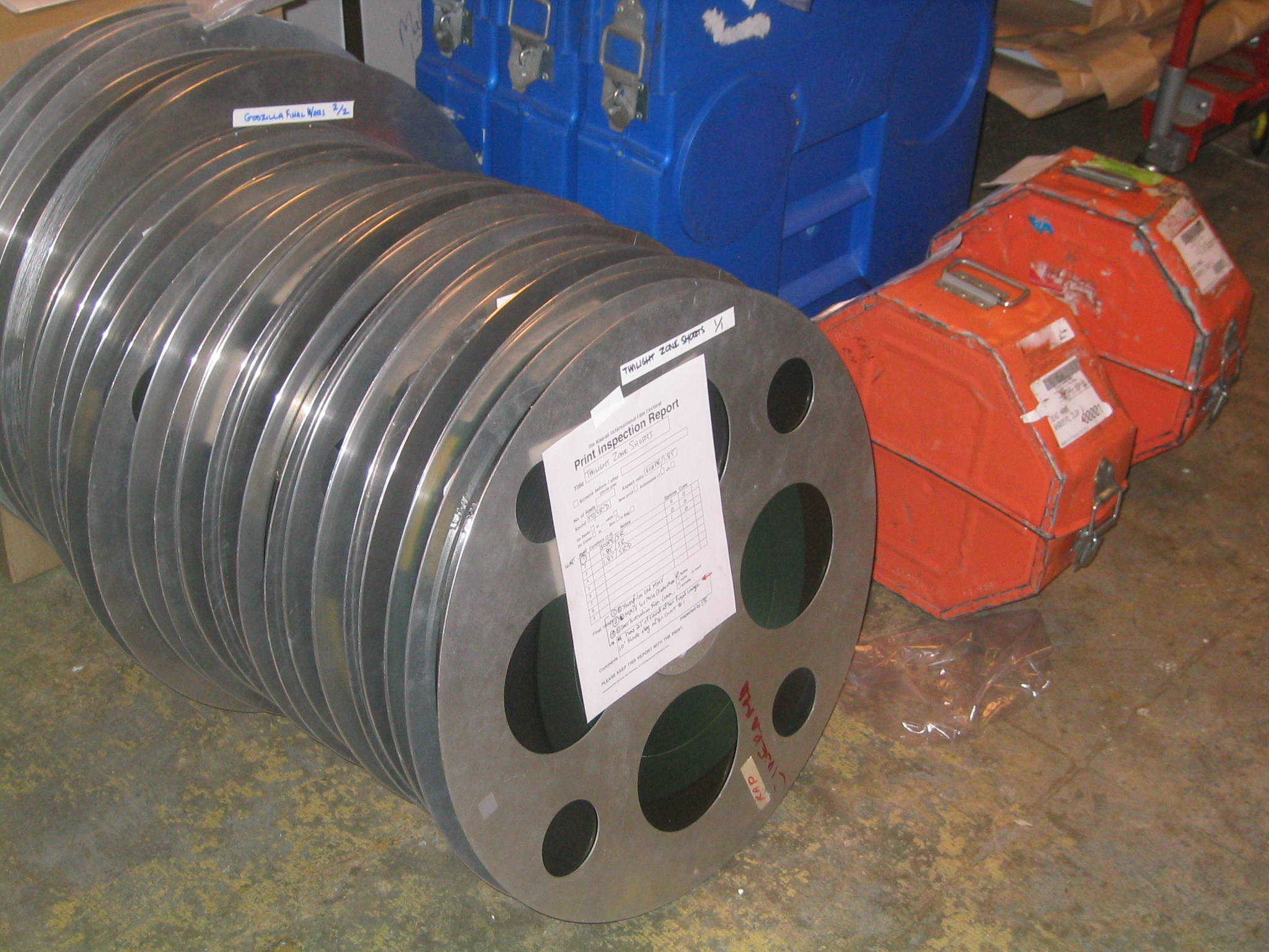 Films travel the world from cinema to cinema in those orange cans and blue boxes (and sometimes wrapped in noting but gauze, I think), are spliced together onto those big 2000 foot reels and then broken down onto smaller reels and shipped on to the next theatre.